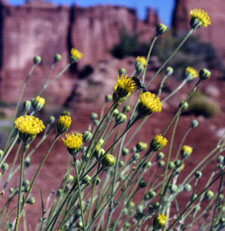 Hymenopappus filifolius. Arches National Park, Utah, USA.